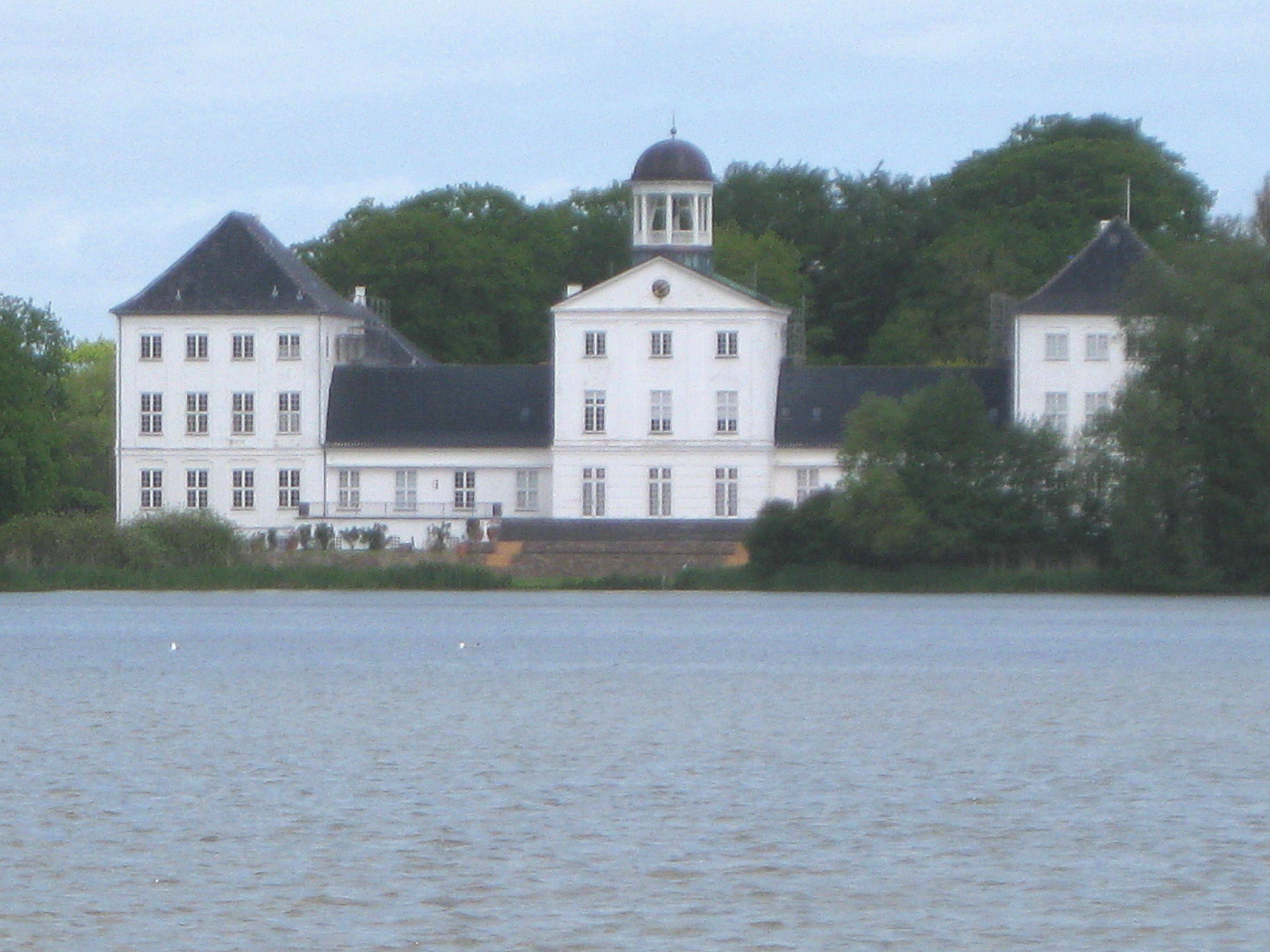 The castle "Gråsten Slot" located nearby the small town "Gråsten" in Southern Jutland, Denmark.